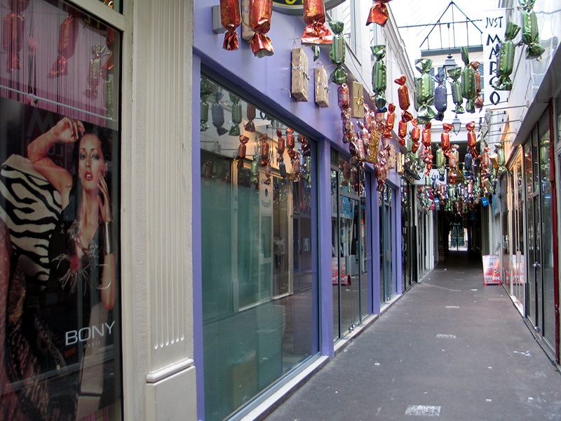 Passage du ponceau, Paris, a sunday afternoon, with Christmas decorations